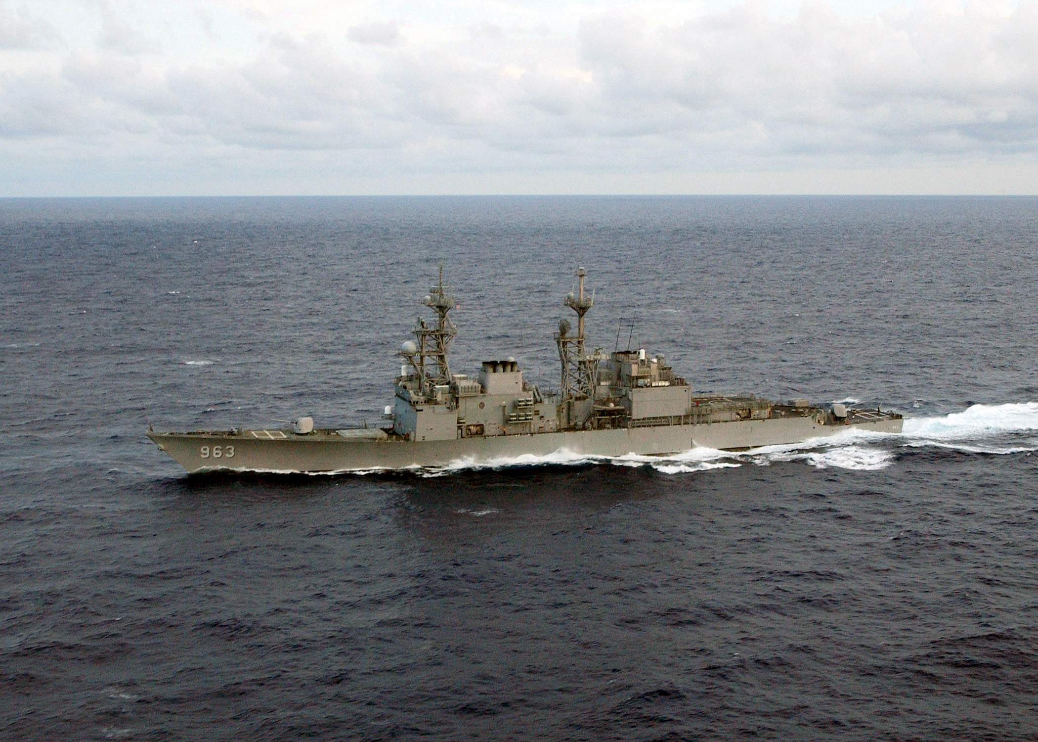 The U.S. Navy destroyer USS Spruance (DD-963) cruises the Atlantic Ocean preparing for an early underway replenishment a with the fast combat support ship USS Seattle (AOE-3), not visible. Spruance was involved in a joint exercise, known as "Combined Joint Task Force Exercise". The exercise allowed all services and several countries to train in a joint environment.